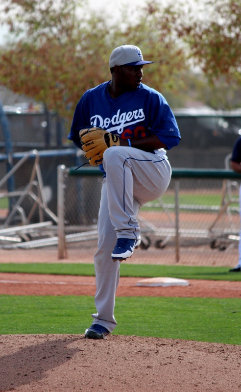 Pedro Baez in spring training